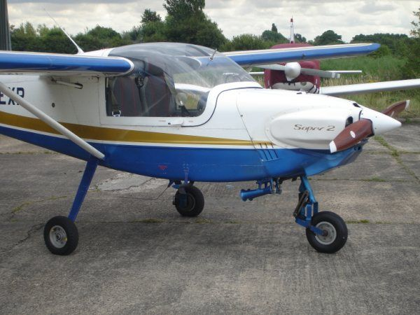 ARV with Jabiru engine